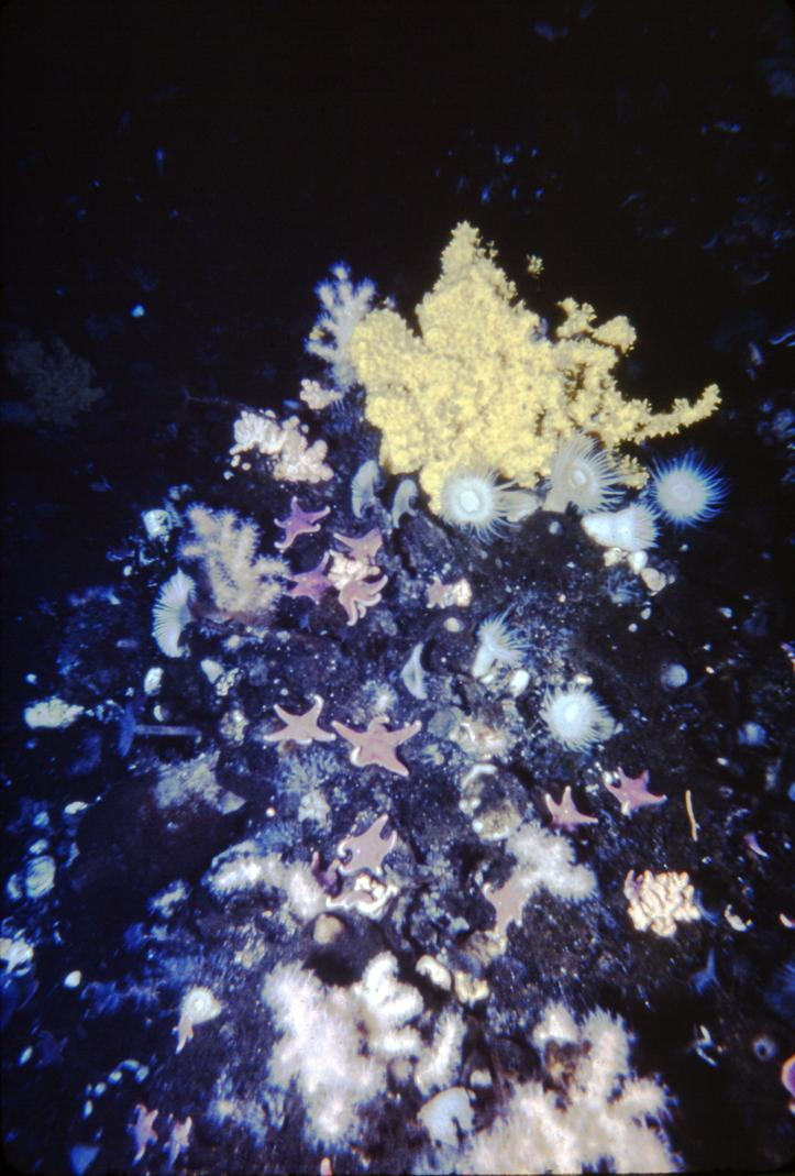 Local number: SIA2012-0667 Summary: SIA RU007231, Box 139, Folder "Palmer Peninsula Survey, 1963". Taken during underwater specimen collecting during Waldo Schmitt's work on the Palmer Peninsula, 1962-1963. Repository: Smithsonian Institution Archives View more collections from the Smithsonian Institution.